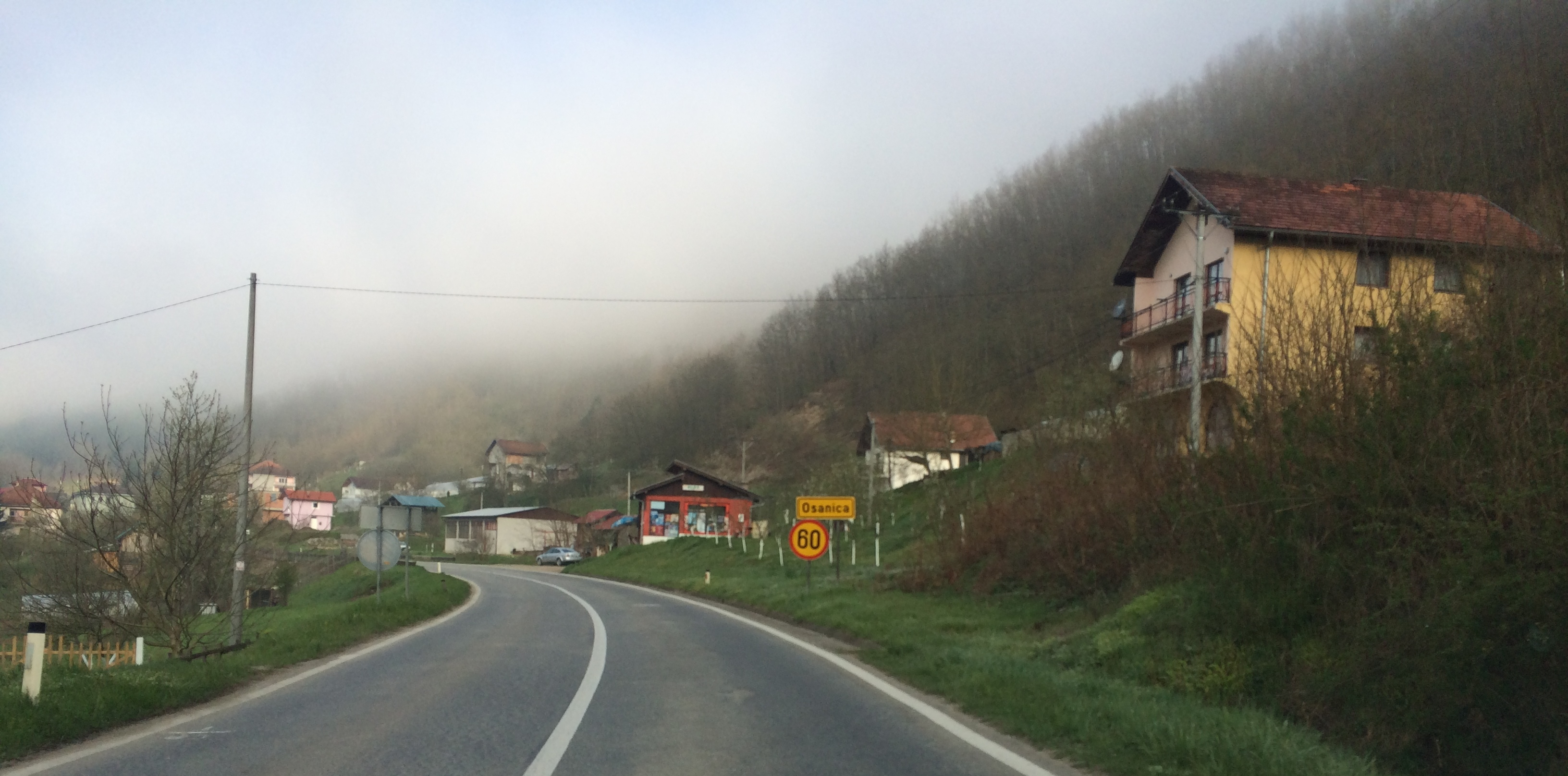 Image from the municipality of Goražde, Bosnia & Herzegovina